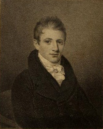 Portrait of Thomas Spencer (1791–1811), English congregationalist minister.